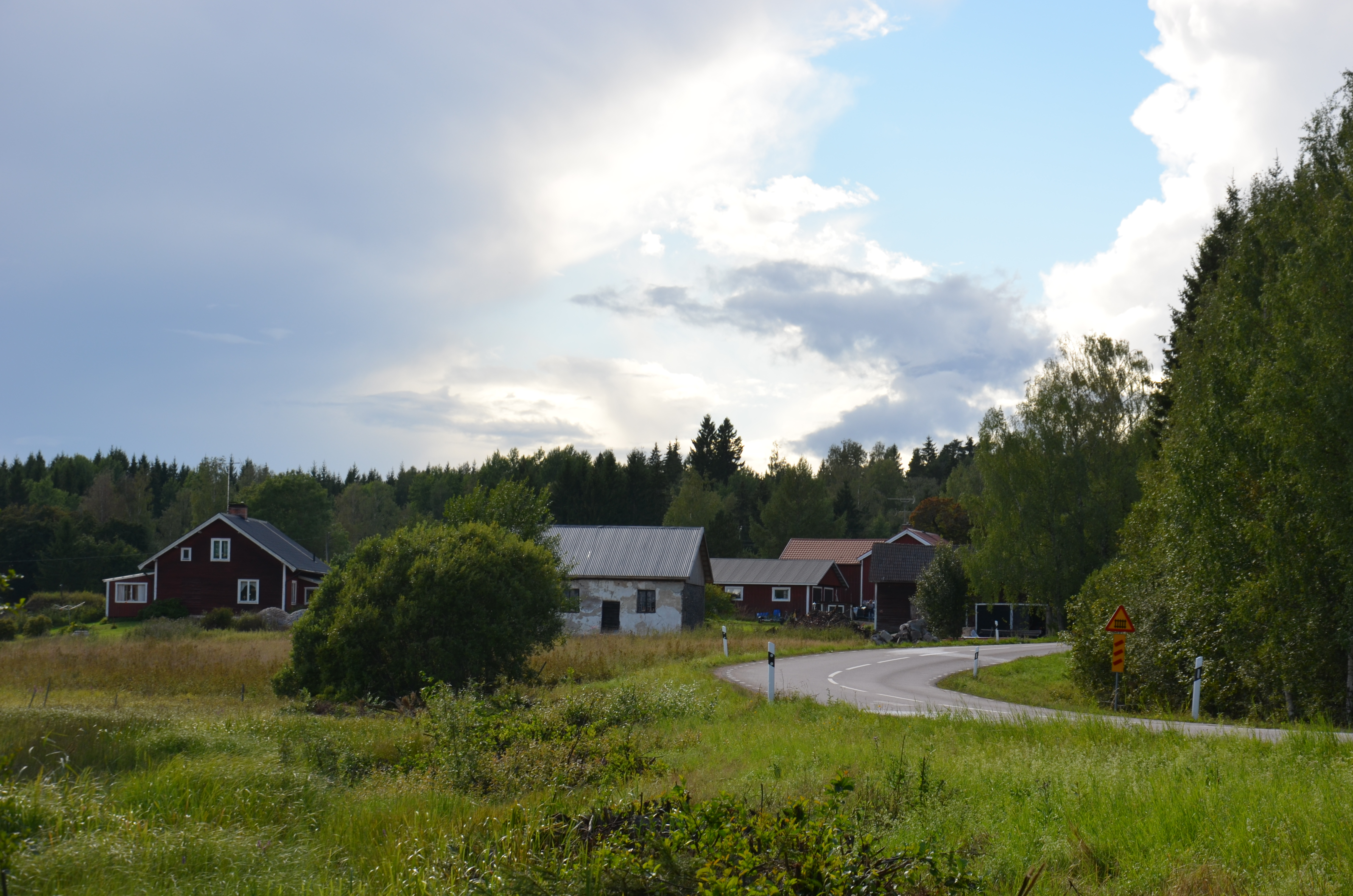 Village Broarna, Municipality of Norberg, Sweden. Picture taken northwards.